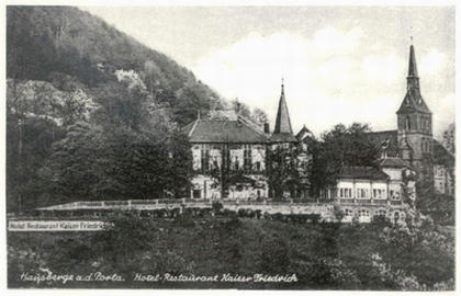 Porta Westfalica, Germany: The former catholic curch Saint Walburga in the local centre Hausberge, 1900